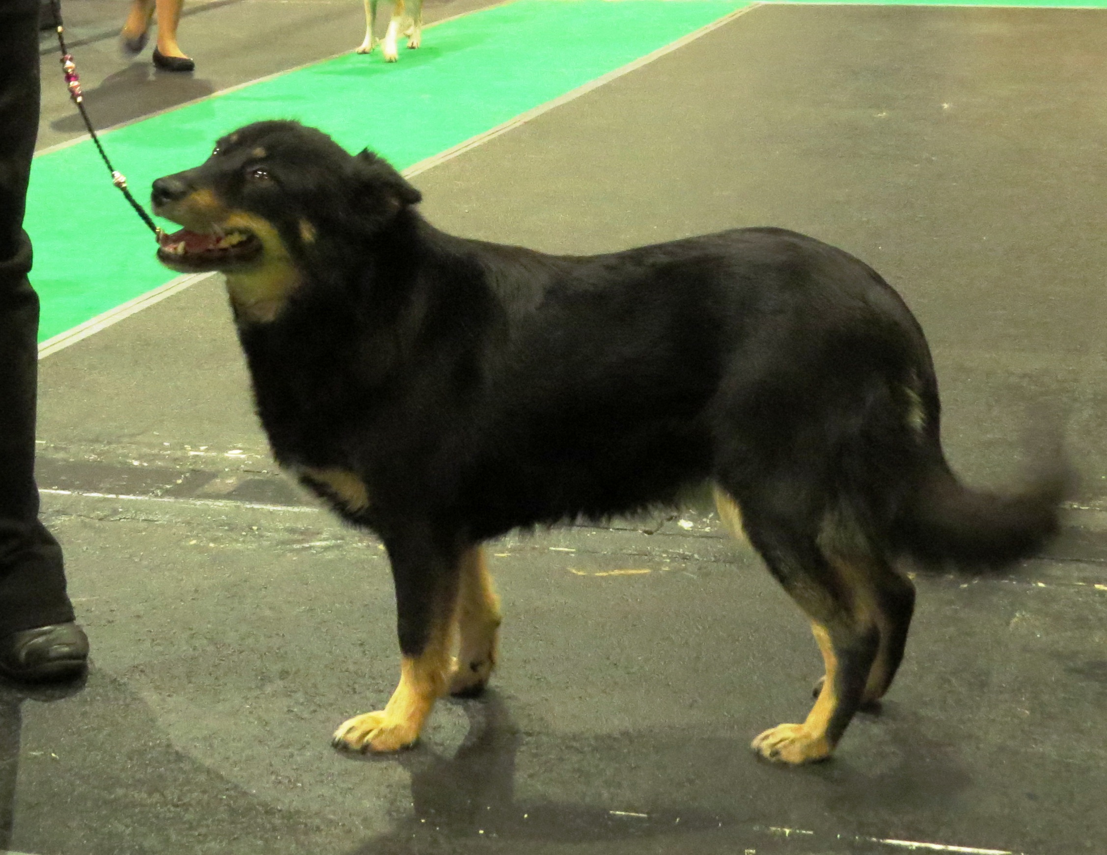 Riga, Baltic Winner 2013, 9-10 Nov